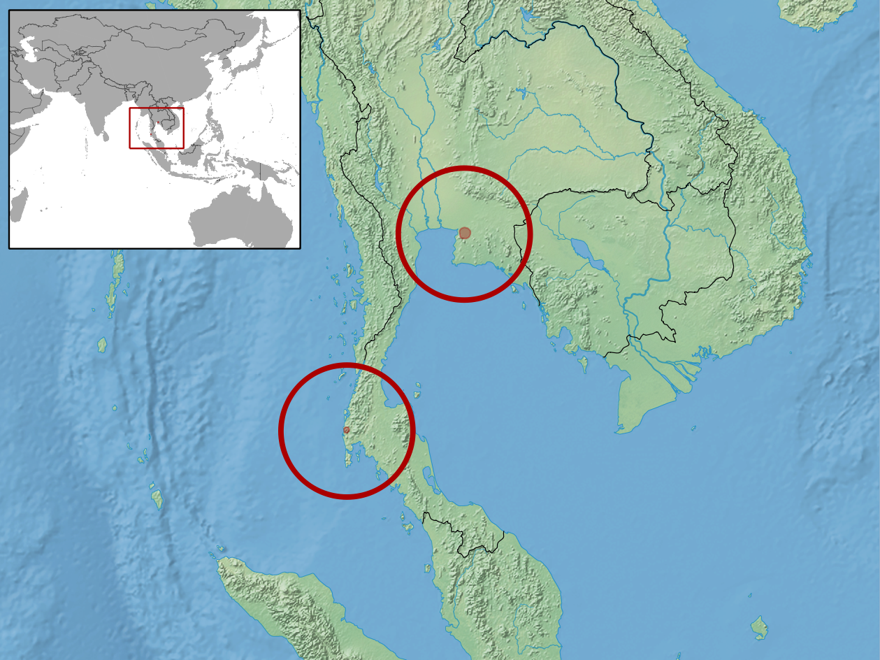 geographic distribution of Isopachys roulei